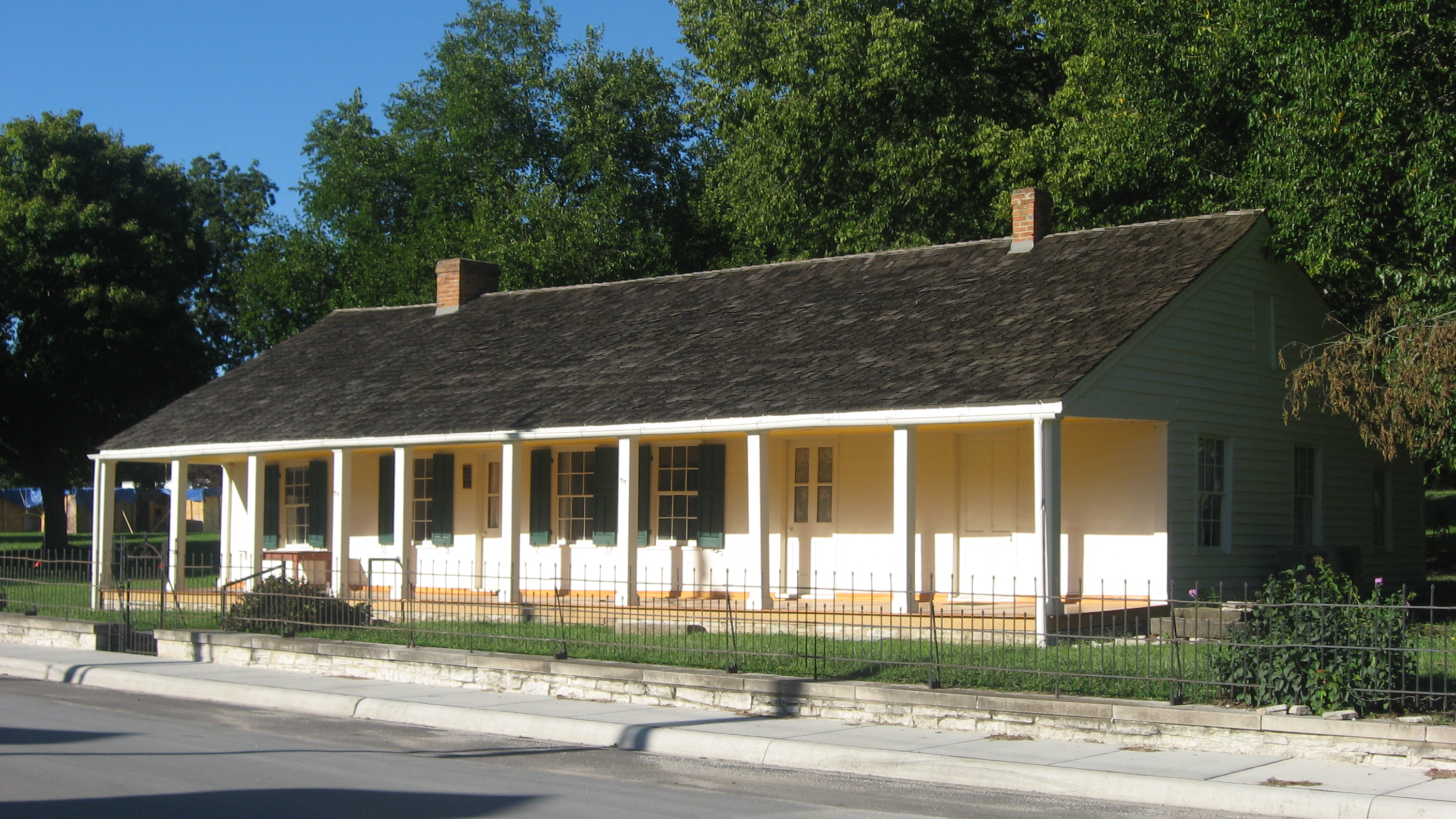 Front and southeastern side of the Creole House, located on the eastern side of Market Street in Prairie du Rocher, Illinois, United States. Built in 1800, it is listed on the National Register of Historic Places, and it is part of a Register-listed historic district, the French Colonial Historic District.